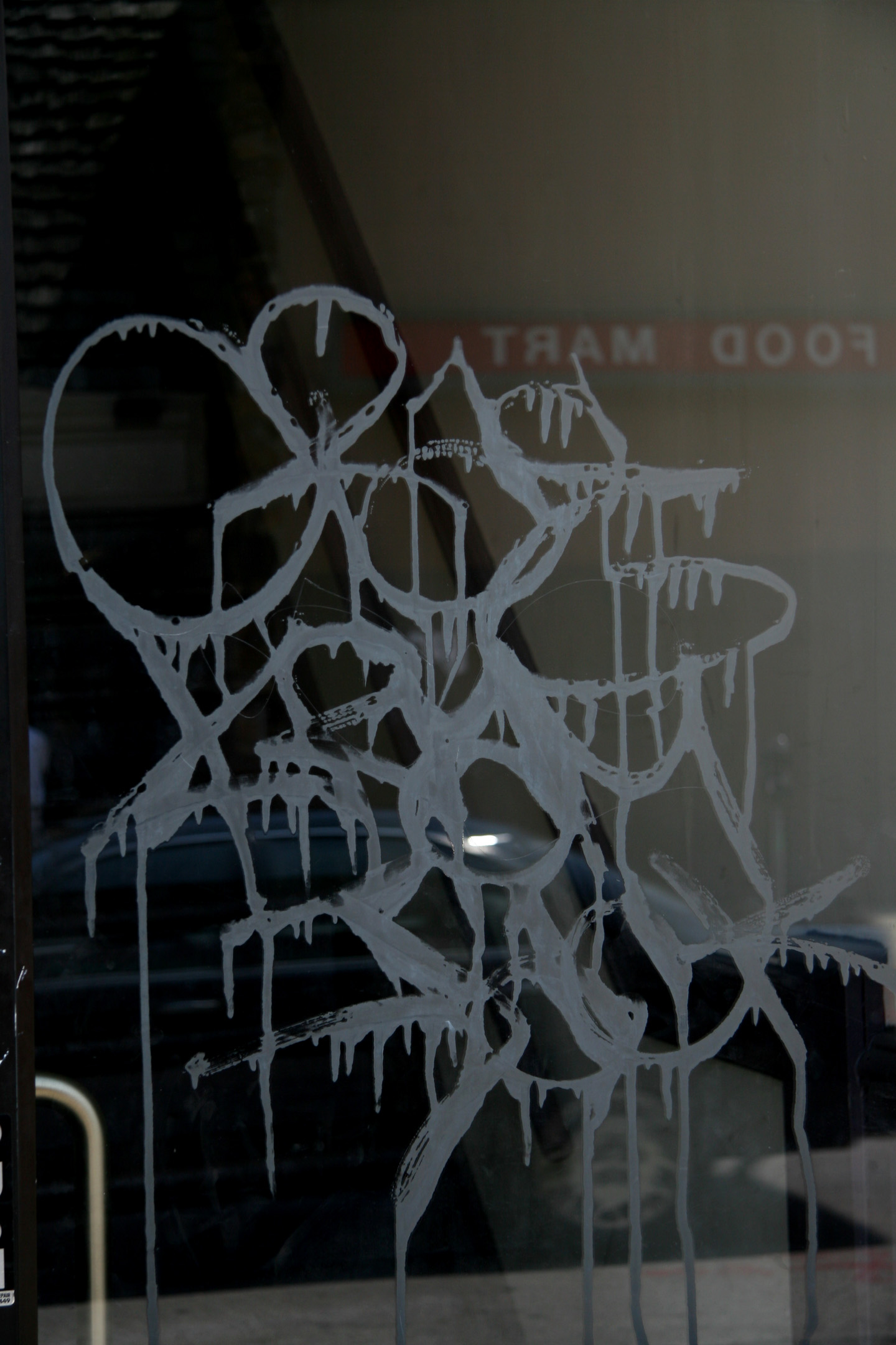 etched tag in chicago, usa